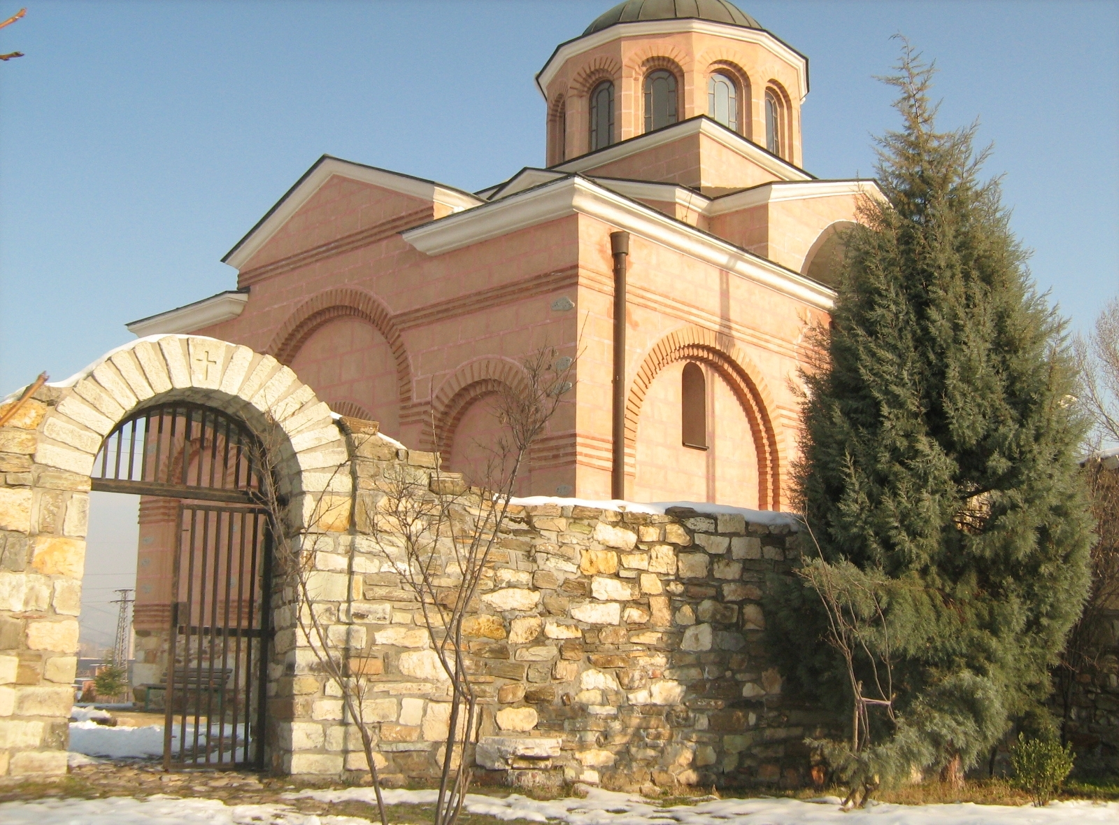 Church St Ioan, Kardzhali, Bulgaria